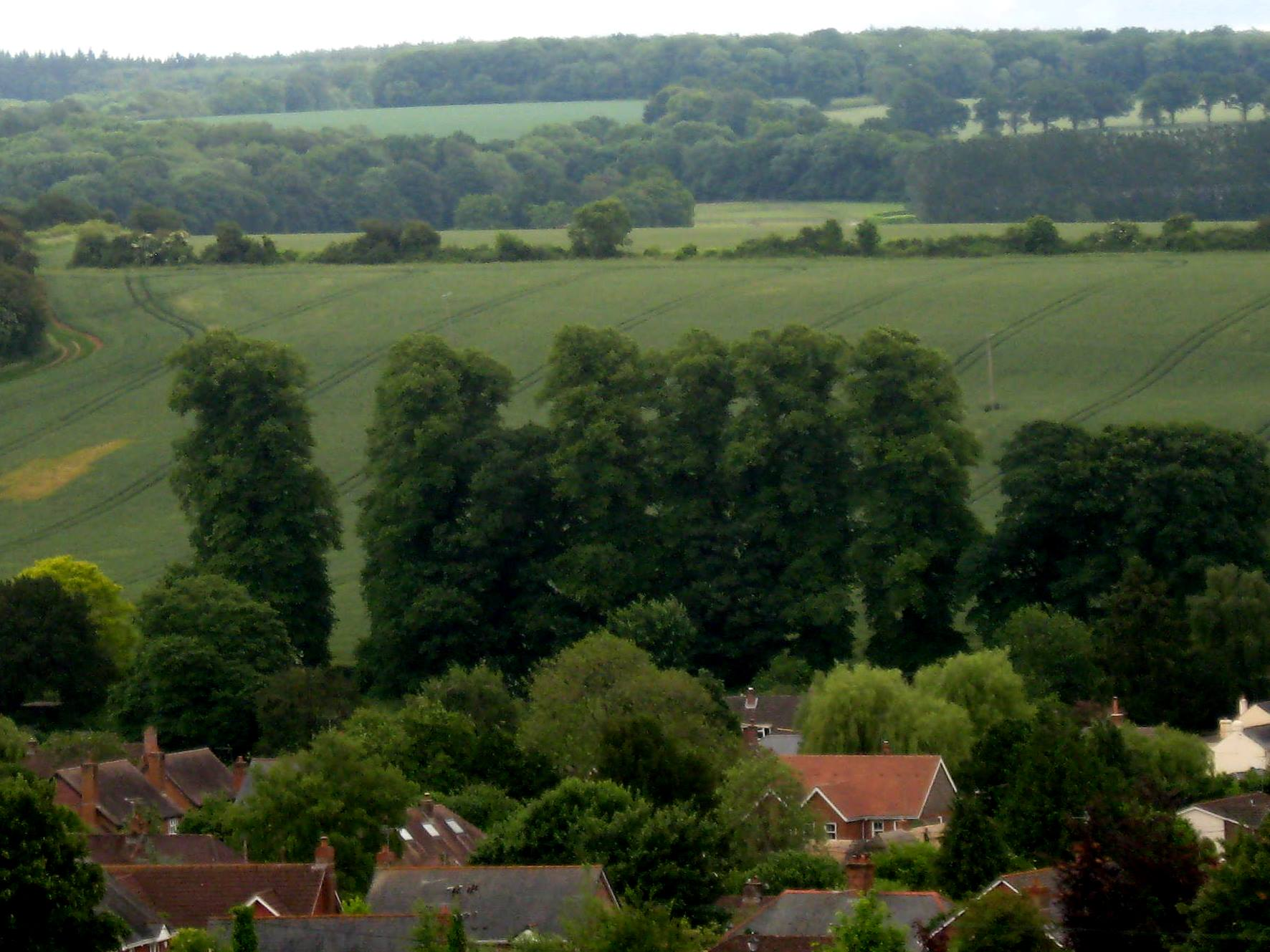 Photo of common limes in the landscape, King's Somborne, UK